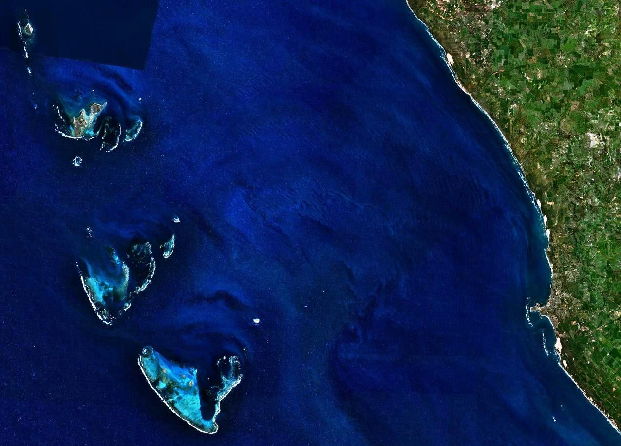 This is a satellite image of the Houtman Abrolhos and the adjacent coast of Western Australia. The point in the lower right quadrant is Point Moore, the location of the city of Geraldton, Western Australia.